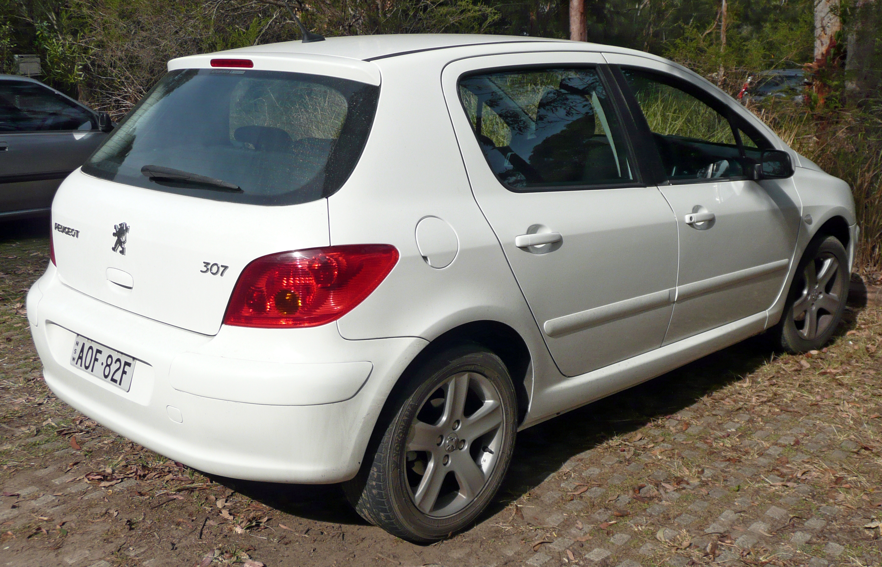 2001–2005 Peugeot 307 (T5) 5-door hatchback. Photographed in Audley, New South Wales, Australia.